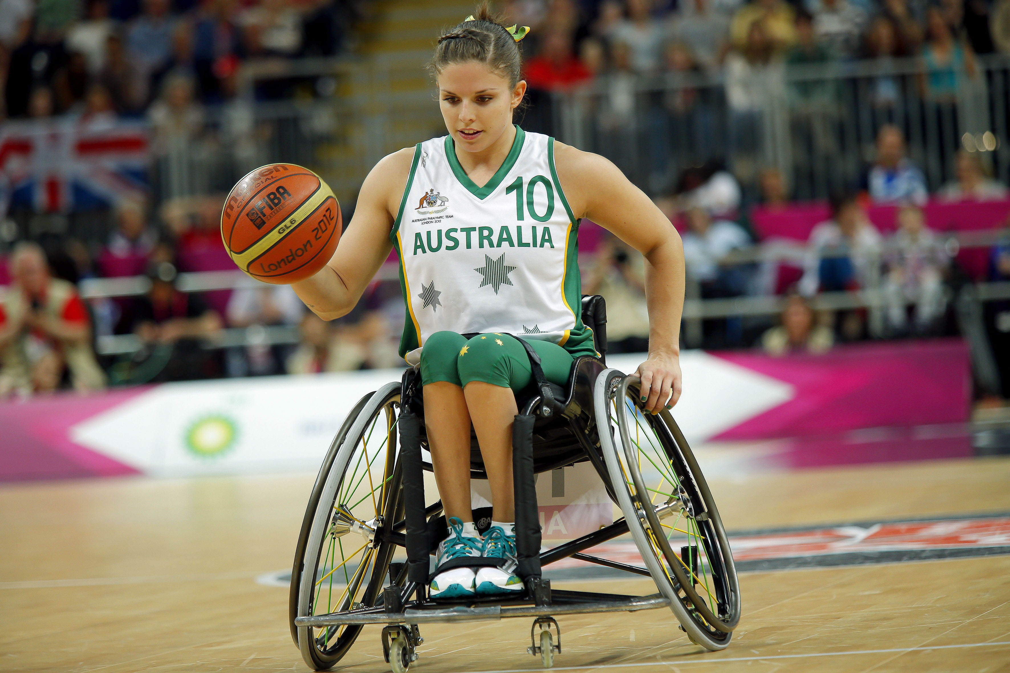 Photograph of Australian Paralympic team member Clare Nott at the 2012 Summer Paralympic Games in London